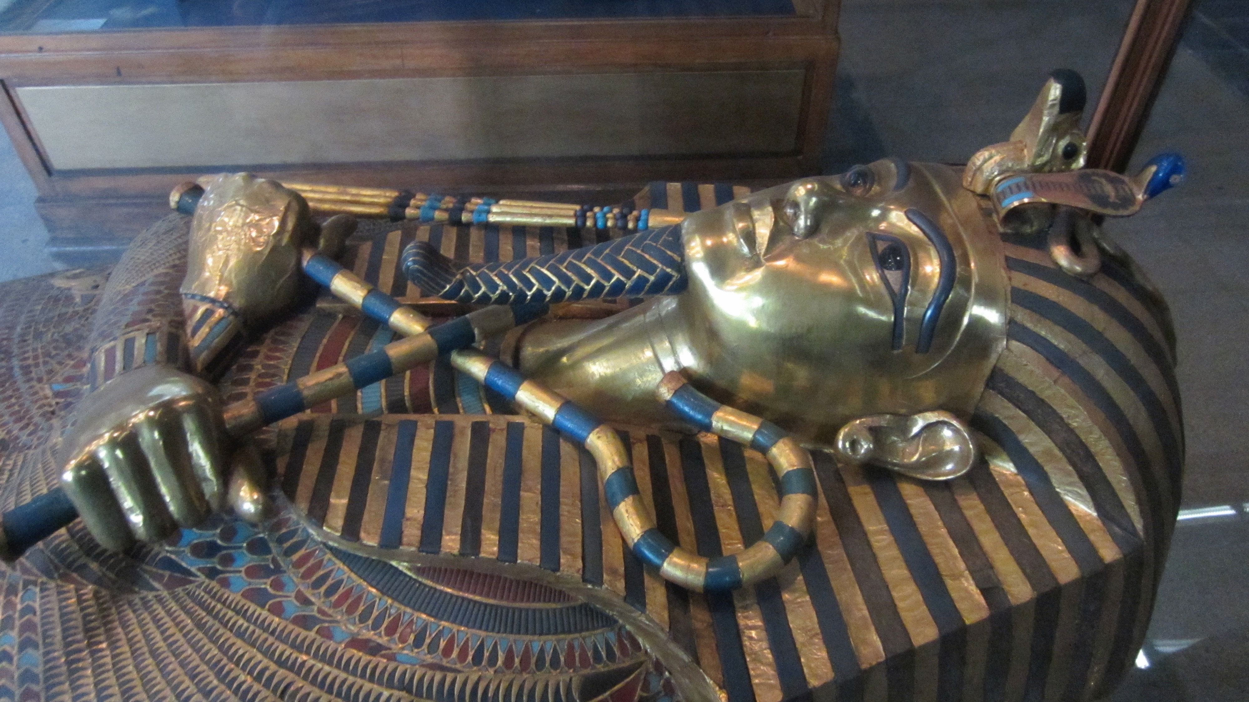 Detail of the head and hands of the middle coffin of Tutankhamun; 1355–1346 BC; wood, gold leaf, semi-precious stones and inlaid glass; height: 39 cm, width: 12 cm, depth: 12 cm; Egyptian Museum (Cairo), Upper floor, room 3; JE 60688. This miniature anthropoid coffin is one of four, which contained the onternal organs of Tutankhamun. These organs were embalmed and wrapped in linen, then placed in the four miniature coffins, that were placed into the alabaster, canopic jars. The king is shown in the Osiride form, with arms crossed over the chest, and holding the heka crook, symbol of power, as well as the nekhekh flail, symbol of authority.